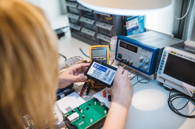 MarineTraffic AIS receiver.